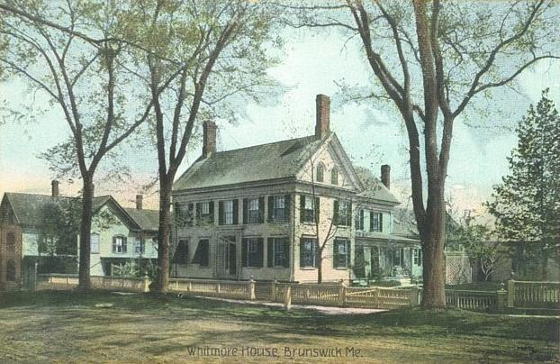 Whitmore House, Brunswick, ME; from a c. 1905 postcard published by the Hugh C. Leighton Company, Portland, Maine, and showing the building in its Victorian colors. Now commonly called the Harriet Beecher Stowe House, it was rented by the author and her husband while he taught at Bowdoin College. Here between 1850 and 1852 was written Uncle Tom's Cabin.